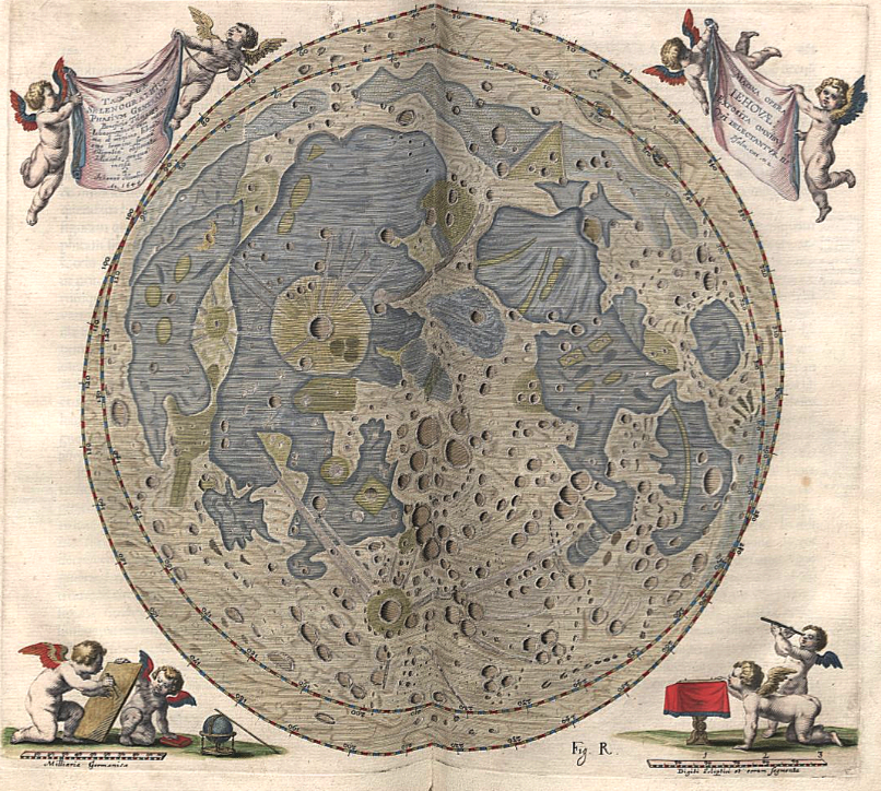 Map of the Moon engraved by the astronomer Johannes Hevelius